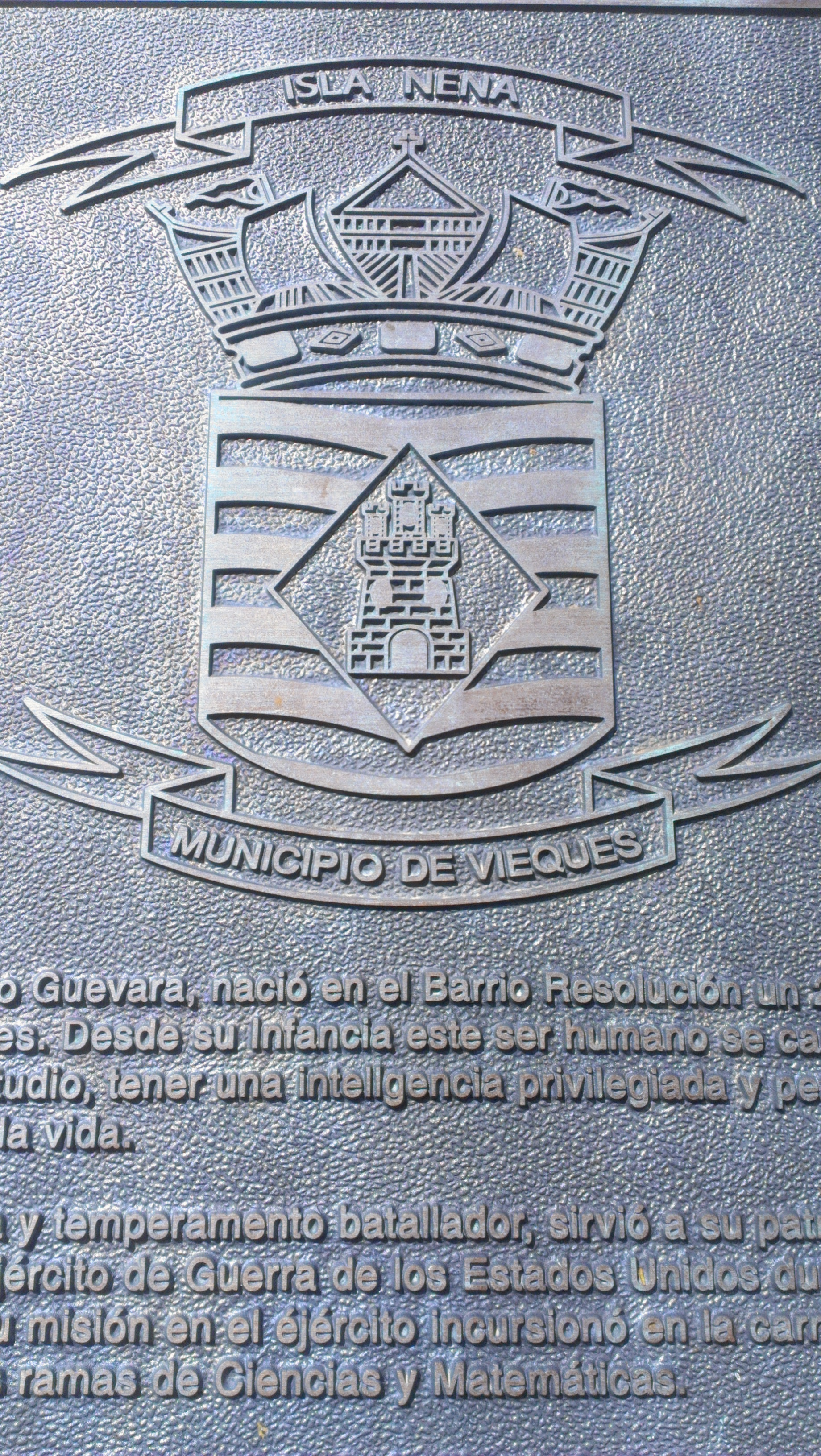 Vieques, PR